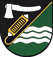 Coat of Arms of Bernterode, Part of Breitenworbis